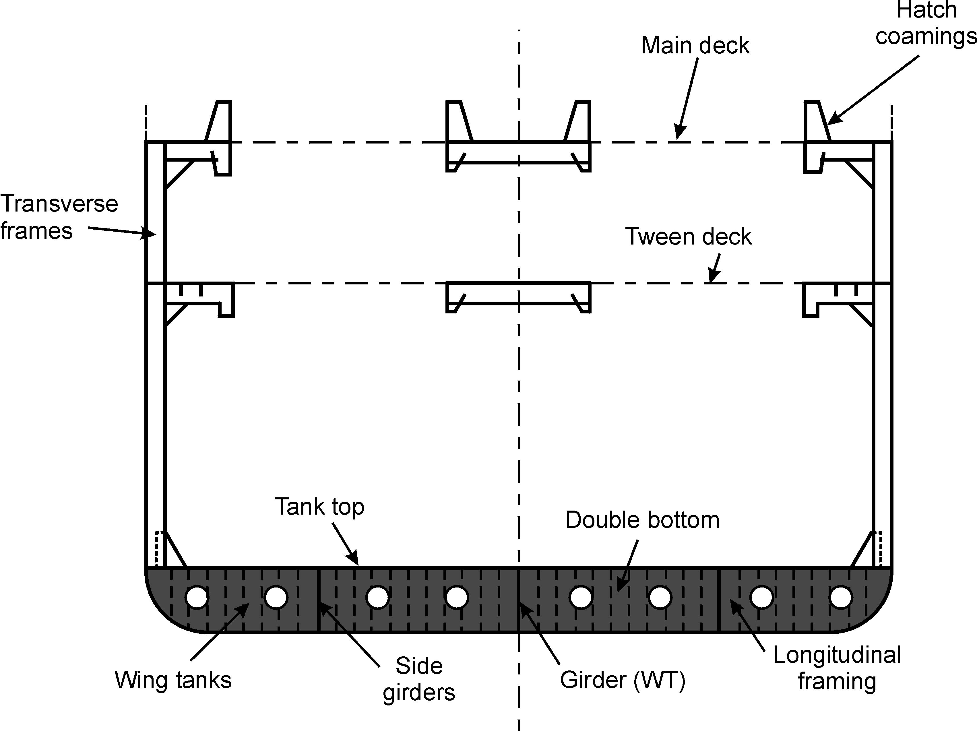 Crossection of ship, bottom stiffener marked